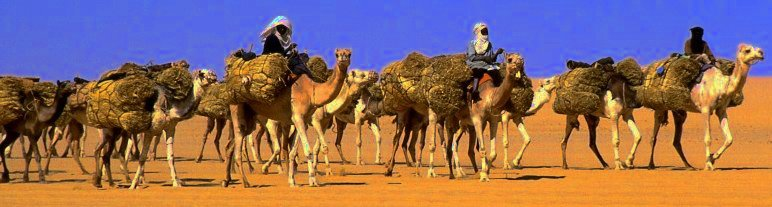 New modified version of the Caravan-picture